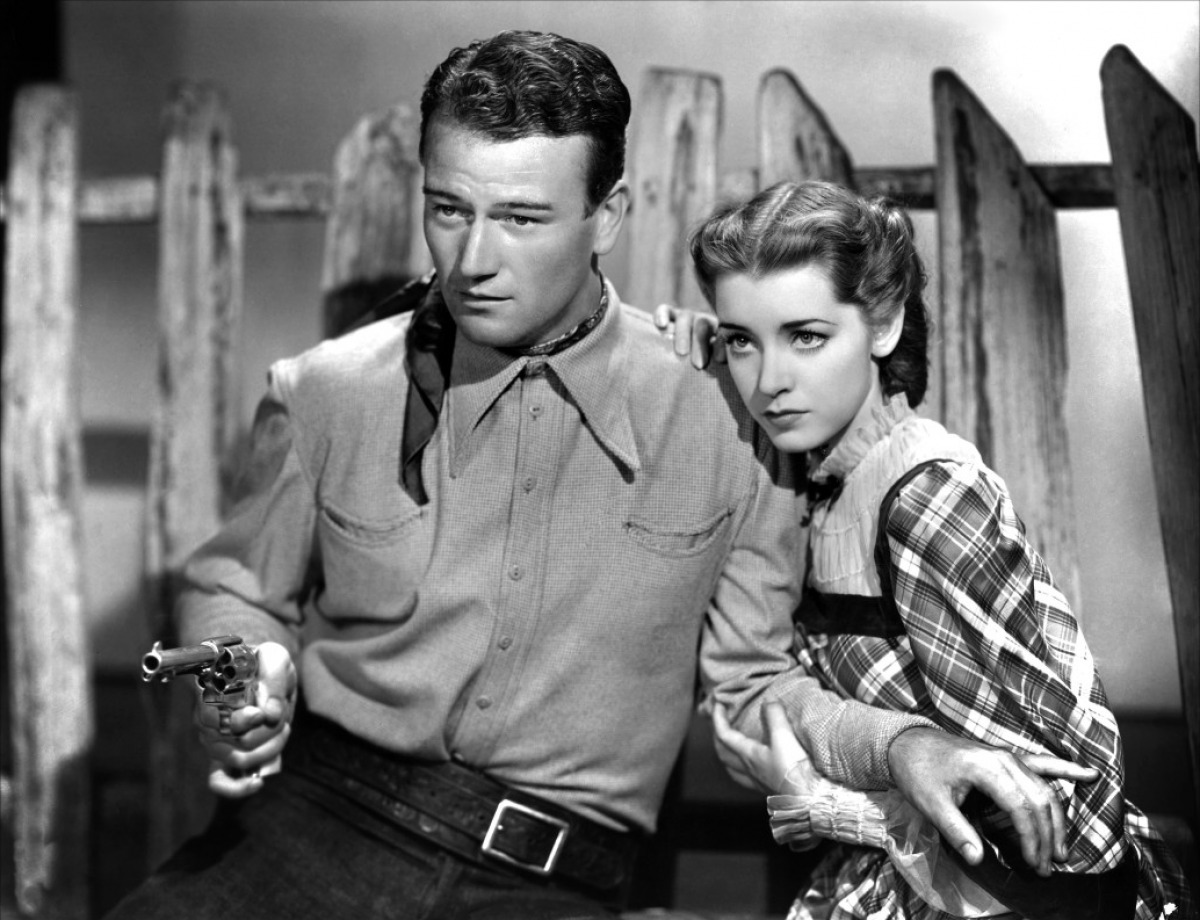 John Wayne & Marsha Hunt in Born to the West aka Hell Town - cropped screenshot